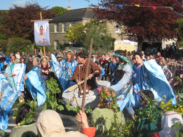 Coinagehall Street Helston, near to Helston, Cornwall, Great Britain. Local MP, Andrew George, during the Hal an Tow, playing the role of St Piran crossing the Irish sea on a millstone to bring Christianity to Cornwall. See also SW6527 : Coinagehall Street Helston .